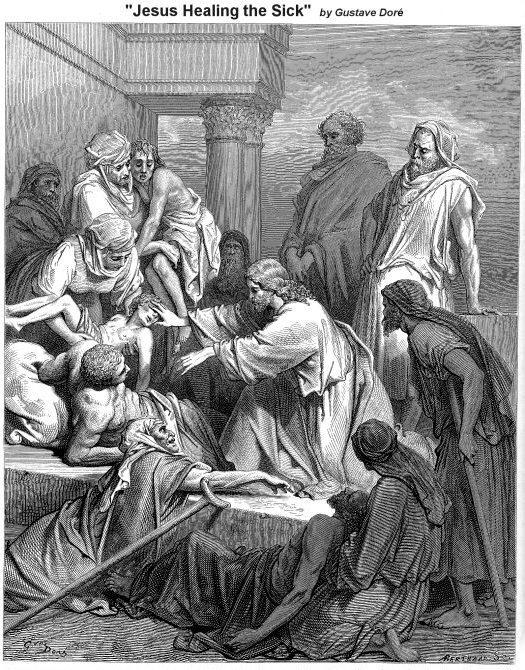 Jesus healing the sick by Gustave Dore, 19th century